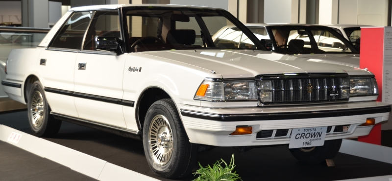 Toyota Crown 3000 Royal Saloon G